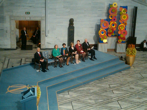 2010 Nobel Peace Prize Ceremony